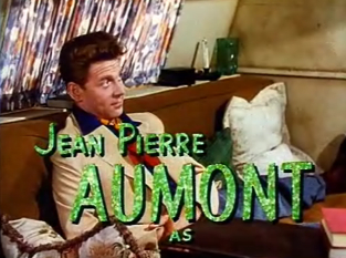 Cropped screenshot of Jean-Pierre Aumont from the trailer for the film Lili